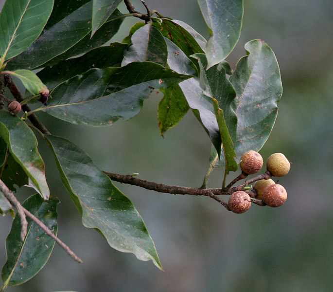 Makrisal or Chiloni Schima wallichii at Samsing in Darjeeling district of West Bengal, India.